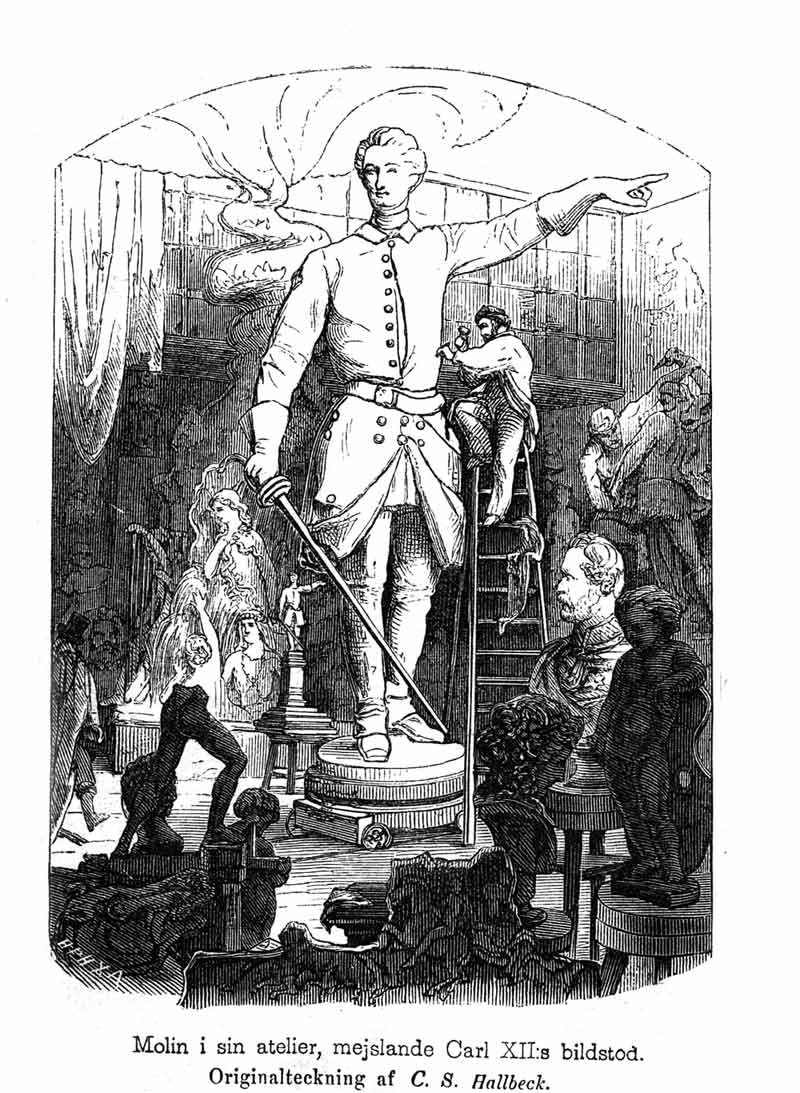 Johan Peter Molin: Working on statue of Carolus XII